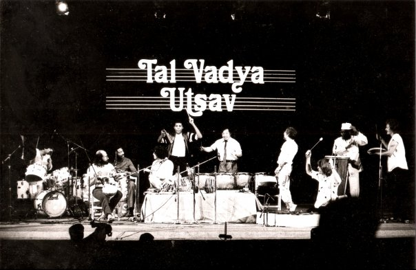 From left to right: Trilok Gurtu, Atilla Engin (front left,) Zakir Hussain (sitting-middle,) Okay Temiz (standing-more to right before Peter Giger,) Peter Giger (sitting,) Babatunde Olatunji (behind Peter Giger-standing)